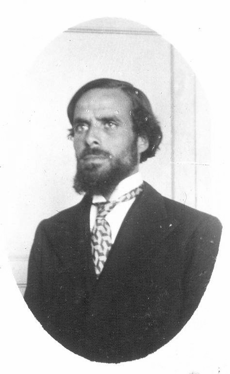 Bourguiba returns from Bordj Le Boeuf